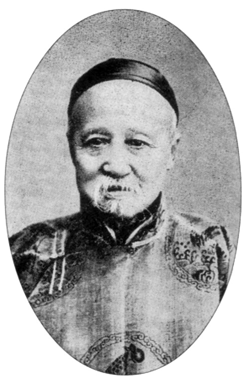 Miao Quansun